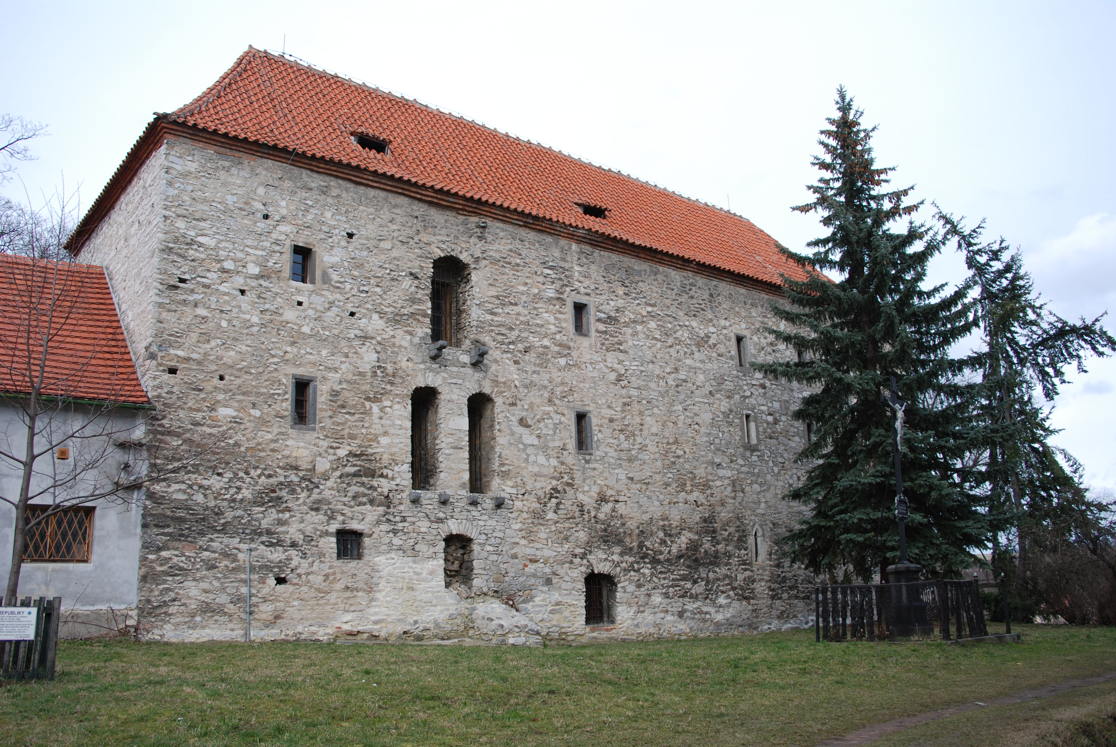 Fortress in town of Volyne